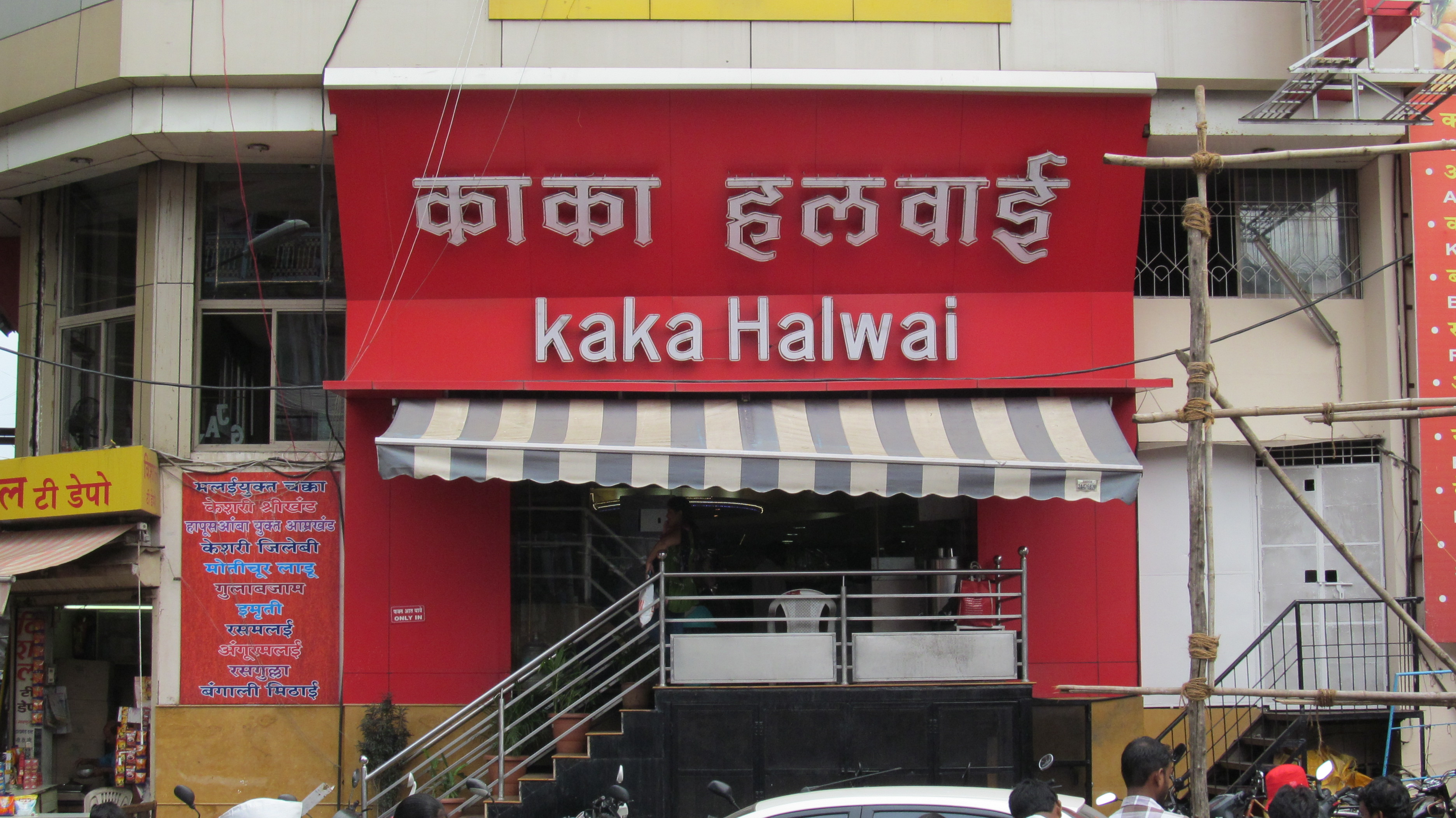 Wikipedia Takes Pune